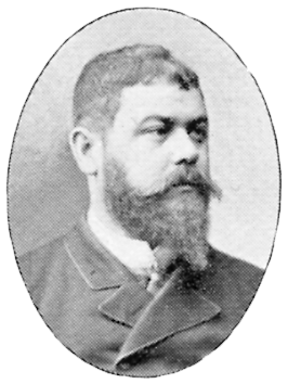 Image scanned from the book "Svenskt Porträttgalleri XX - Arkitekter, Bildhuggare, Målare m.fl. " ("Swedish Portrait Gallery XX - Architects, Sculptors, Painters, ") published 1901